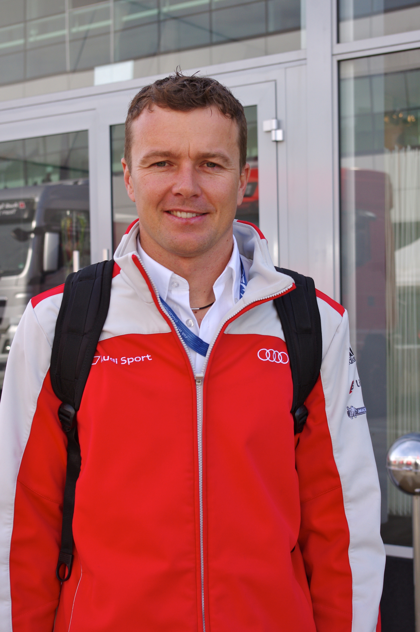 WEC Silverstone 6 Hours 2013: Marcel Fässler (Audi Sport Team Joest)